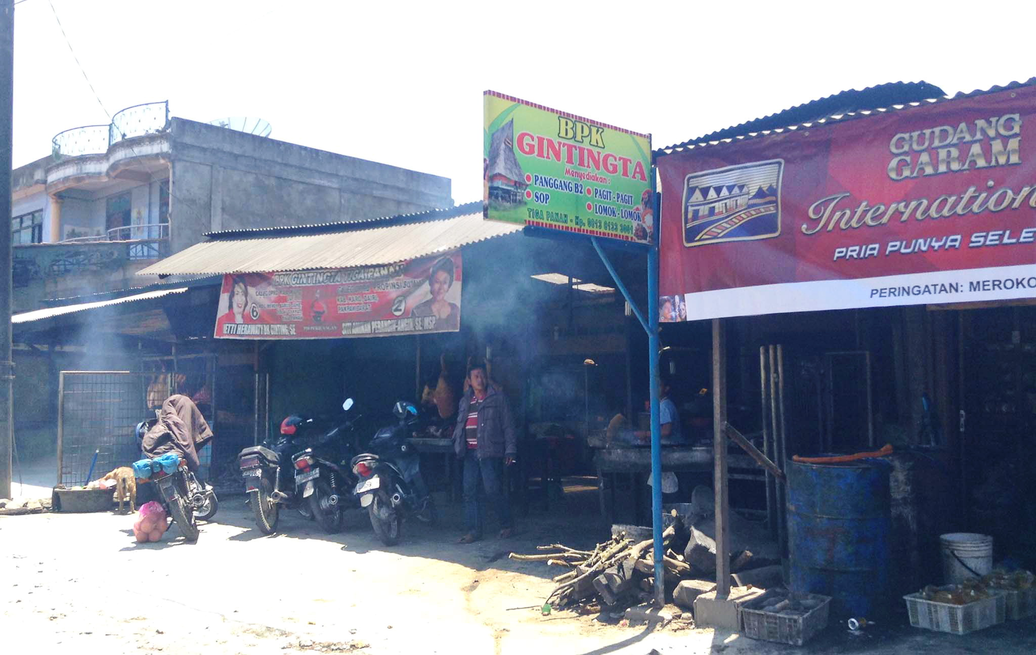 Restaurant BPK Gintingta in Tigapanah